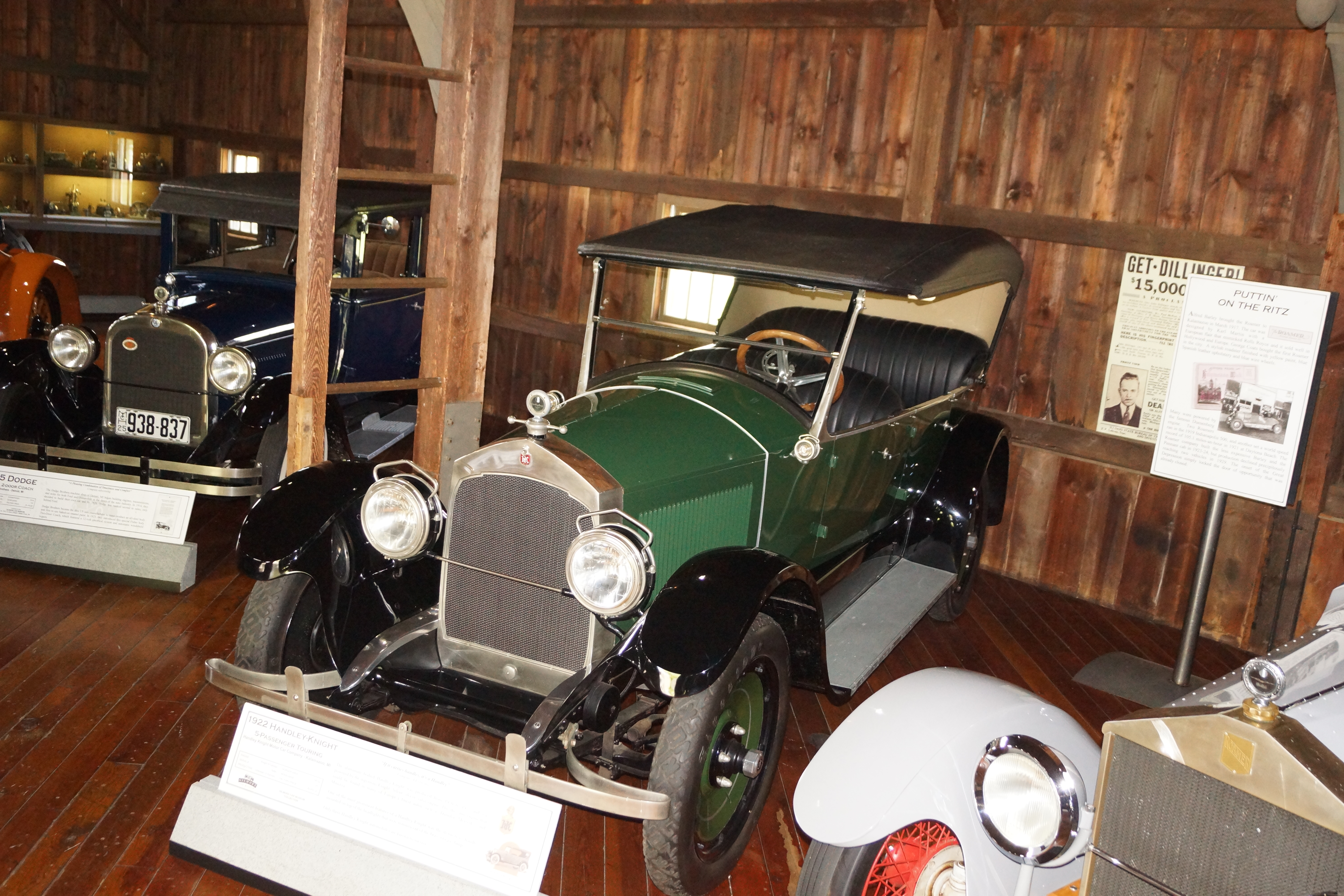 1922 Handley-Knight Model B 5-passenger Touring at the Gilmore Car Museum 6865 W Hickory Rd. Hickory Corners, Michigan May 2017 Back in February I was told I had to schedule some vacation before July, At about the same, an article appeared on the Hemmings blog about the first ever joint meeting of AACA (Anitique Automobile Club of America) and CCCA (Classic Car Club of America) in Auburn, Indiana. It was too good of an opportunity to pass up two car clubs and all of the automotive history packed into Auburn, Indiana. Since I was driving from Mnnesota, I made a slight detour to see the Gilmore Car Museum on the way to Indiana. Link to Hemmings Article: Click here for more car pictures at my Flickr site. Or here for my Car Crazy Tumblr site. Or on Twitter @DVS1mn.